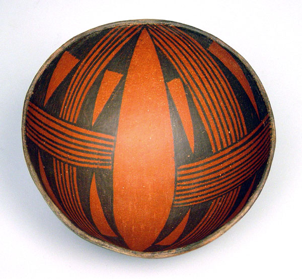 Tusayan black on red bowl. Pueblo ii-iii. Most abundant from 1050-1150 ad,. Grand Canyon National Park Museum Collection, P.O. Box 129, Grand Canyon, AZ 86023